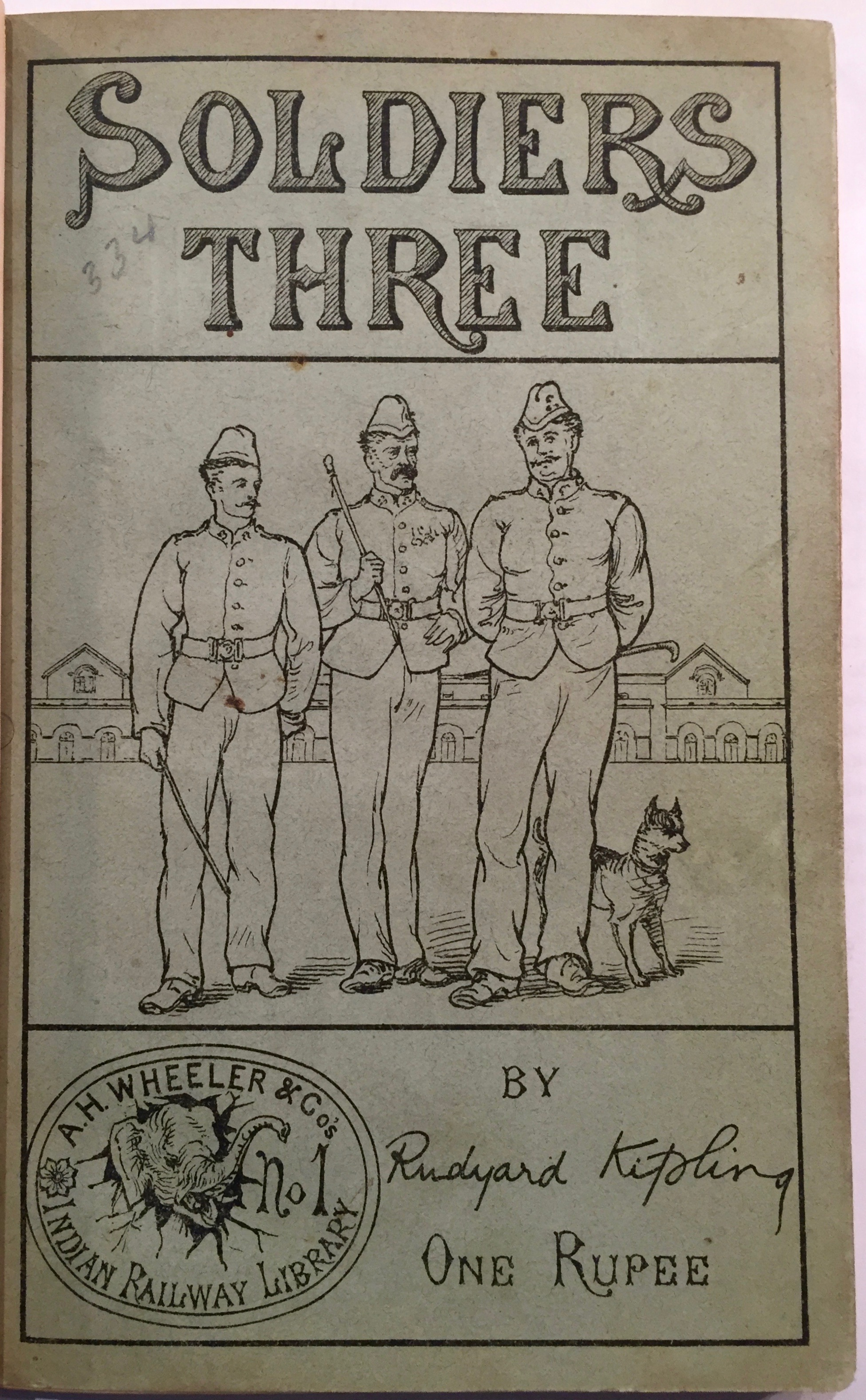 The first-state cover of Kipling's collection of stories, called Soldiers Three, published 1888.